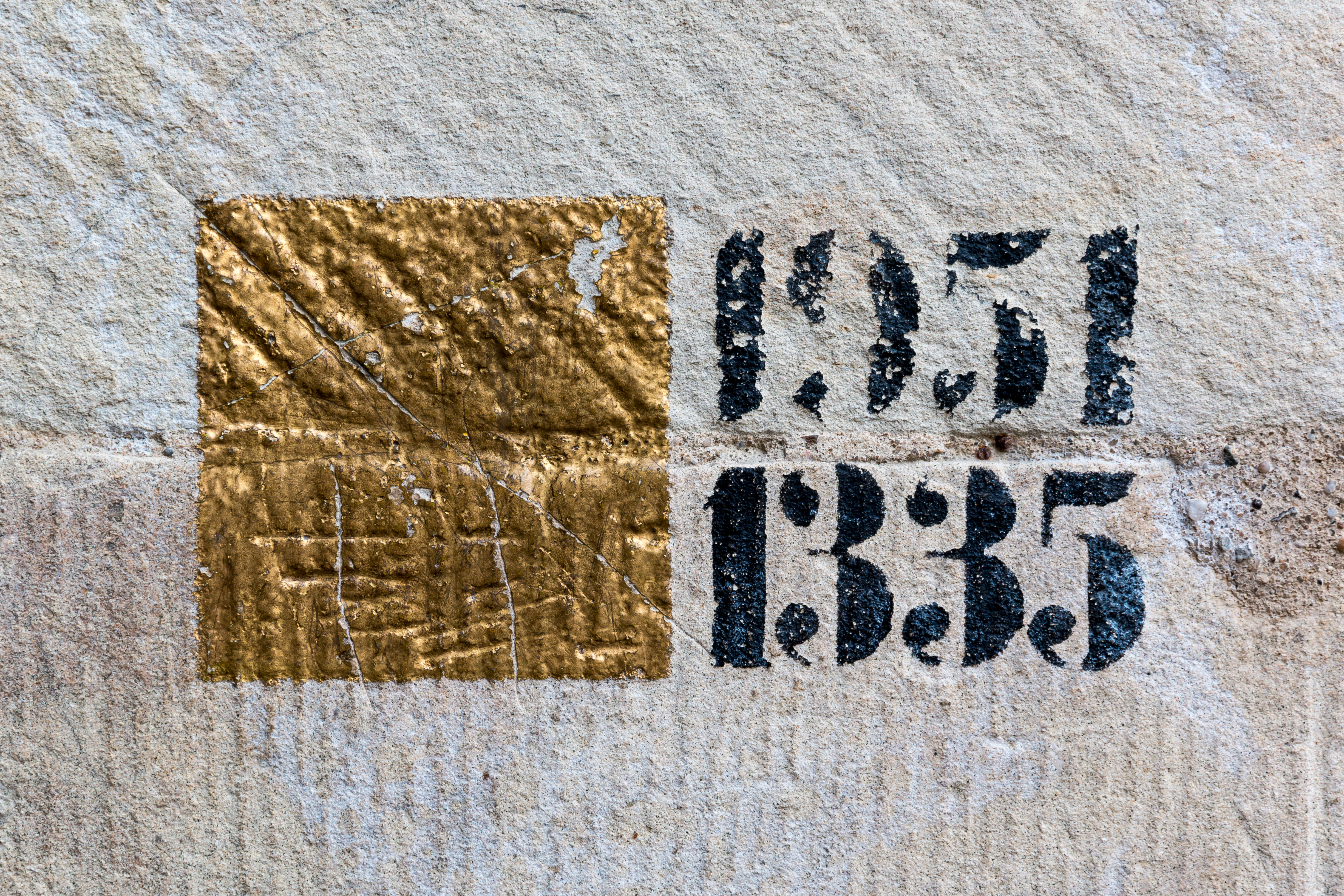 “Goldene Fuge” (Adolph W. Knüppel, 1993) at the historical town hall in Münster, North Rhine-Westphalia, Germany Sculpture TitleGoldene FugeArtistAdolph W. KnüppelDatefrom 1993 date QS:P,+1993-00-00T00:00:00Z/7,P580,+1993-00-00T00:00:00Z/9